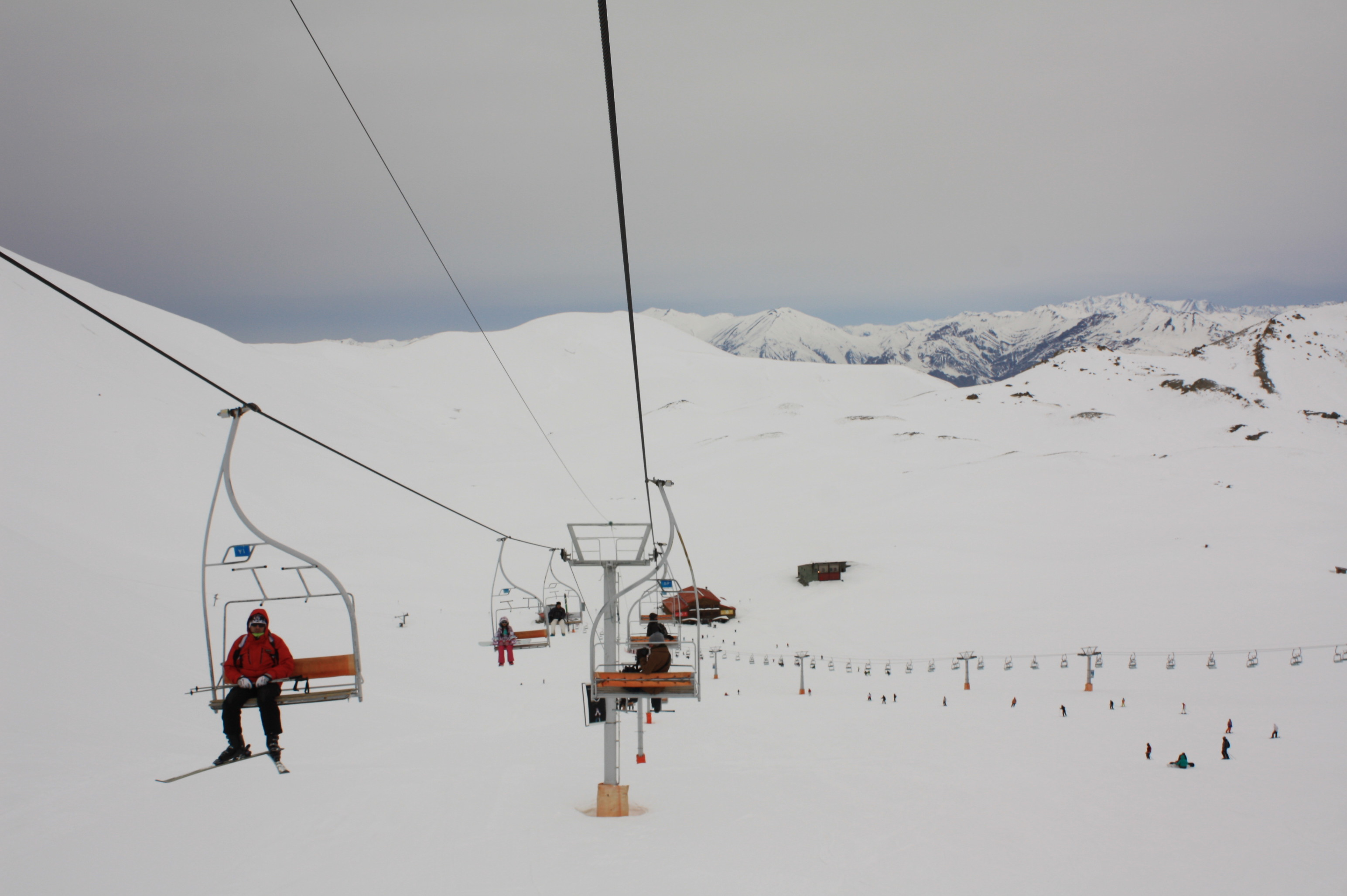 Tochal Ski Resort, Teheran, Iran